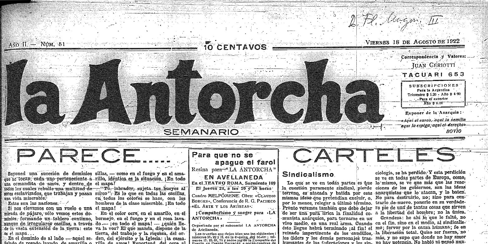 Cover capture of La Antorcha of August 18, 1922